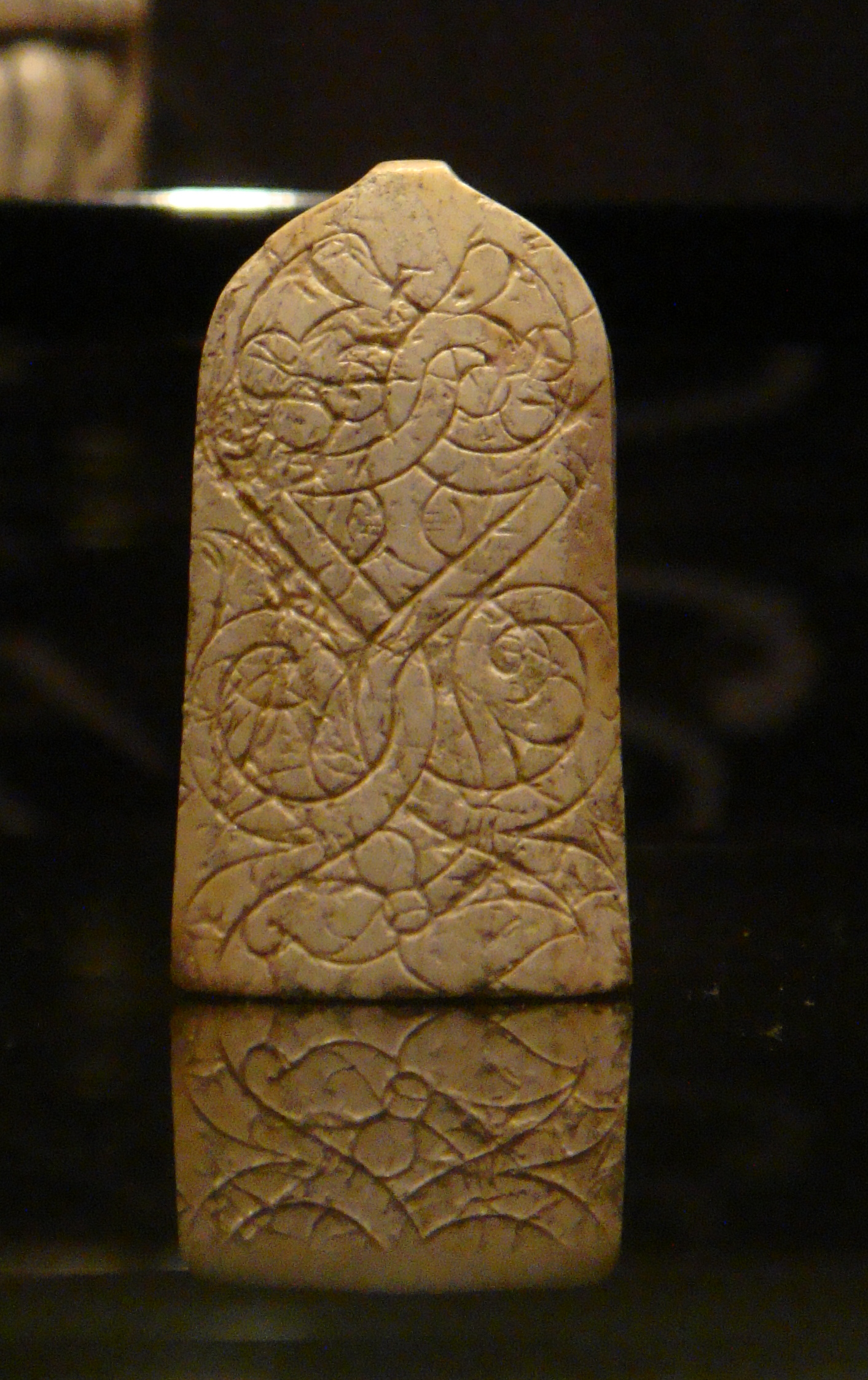 Exhibition in the National Museum of Scotland. Pieces from the British Museum, National Museum of Scotland and other collections. A pawn with number of permanent collection BM 127